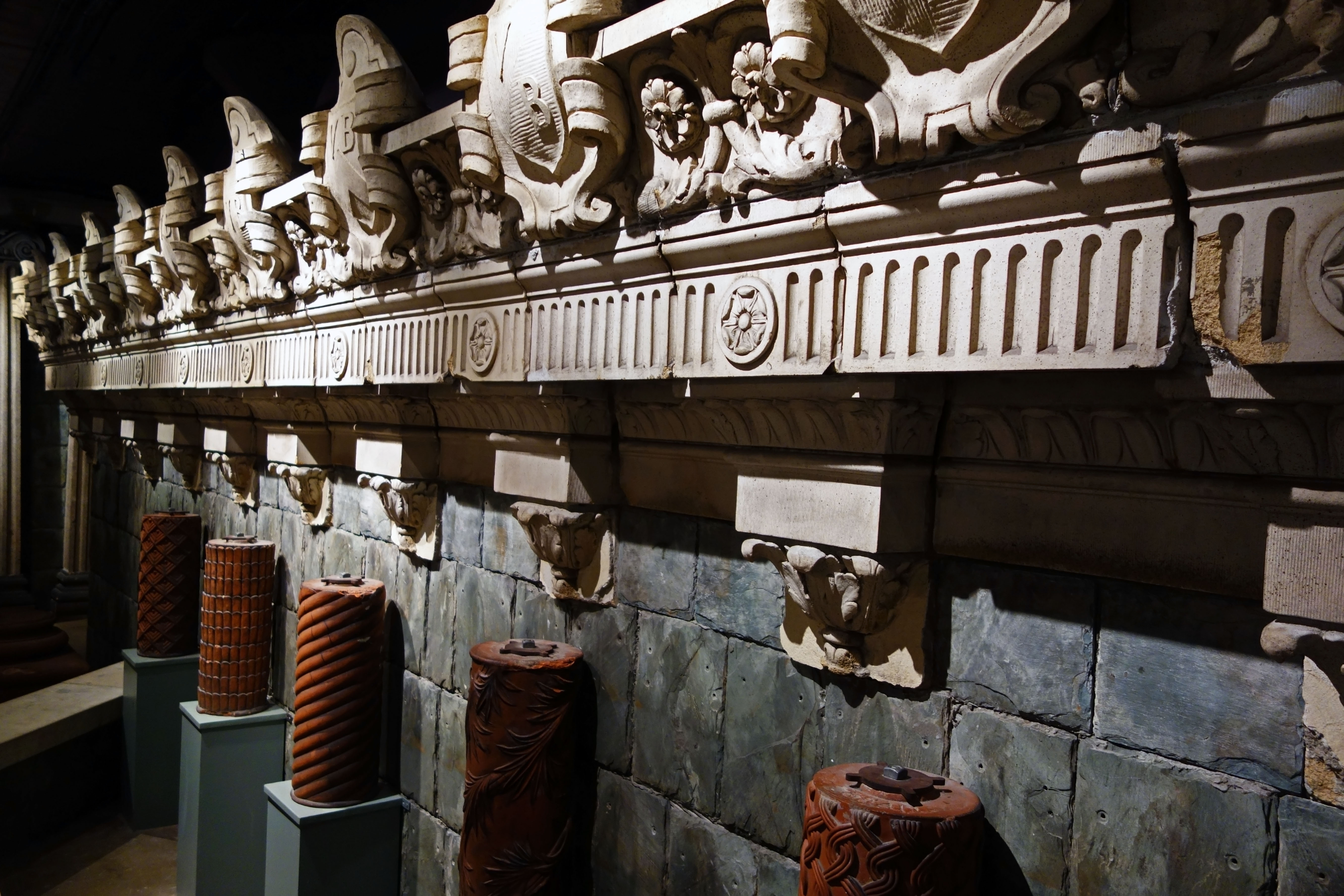 From the Vesper Buick (VB) Dealership demolished in 1993. Made at the Winkle terra cotta works on Manchester Ave. At the Architecture Museum on the third floor of the City Museum, St, Louis, MO.